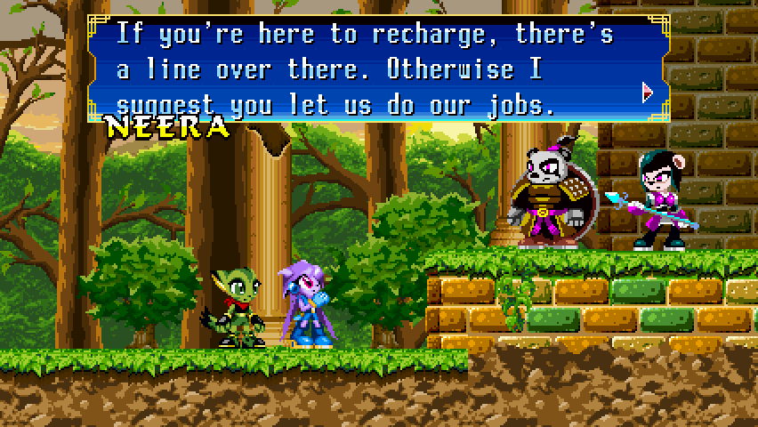 In one of the game's cutscenes, protagonists Lilac and Carol speak with government officials General Gong and Neera.